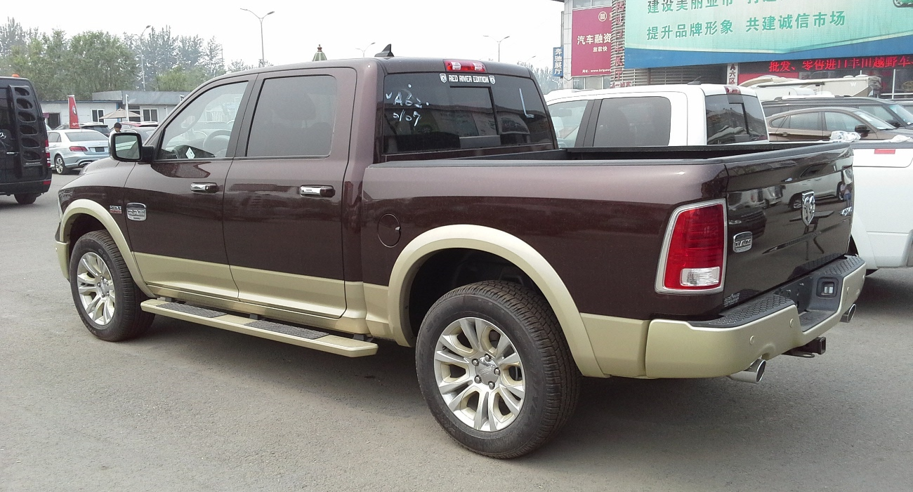 Ram 1500 DS Crew Cab facelift photographed in Beijing, China.